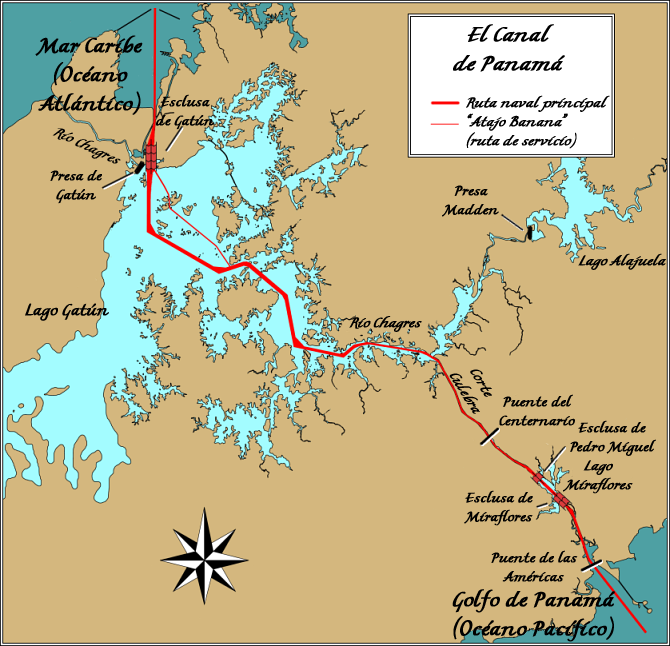 Wikpedia Commons' Diagram of Panama Canal, translated into Spanish.